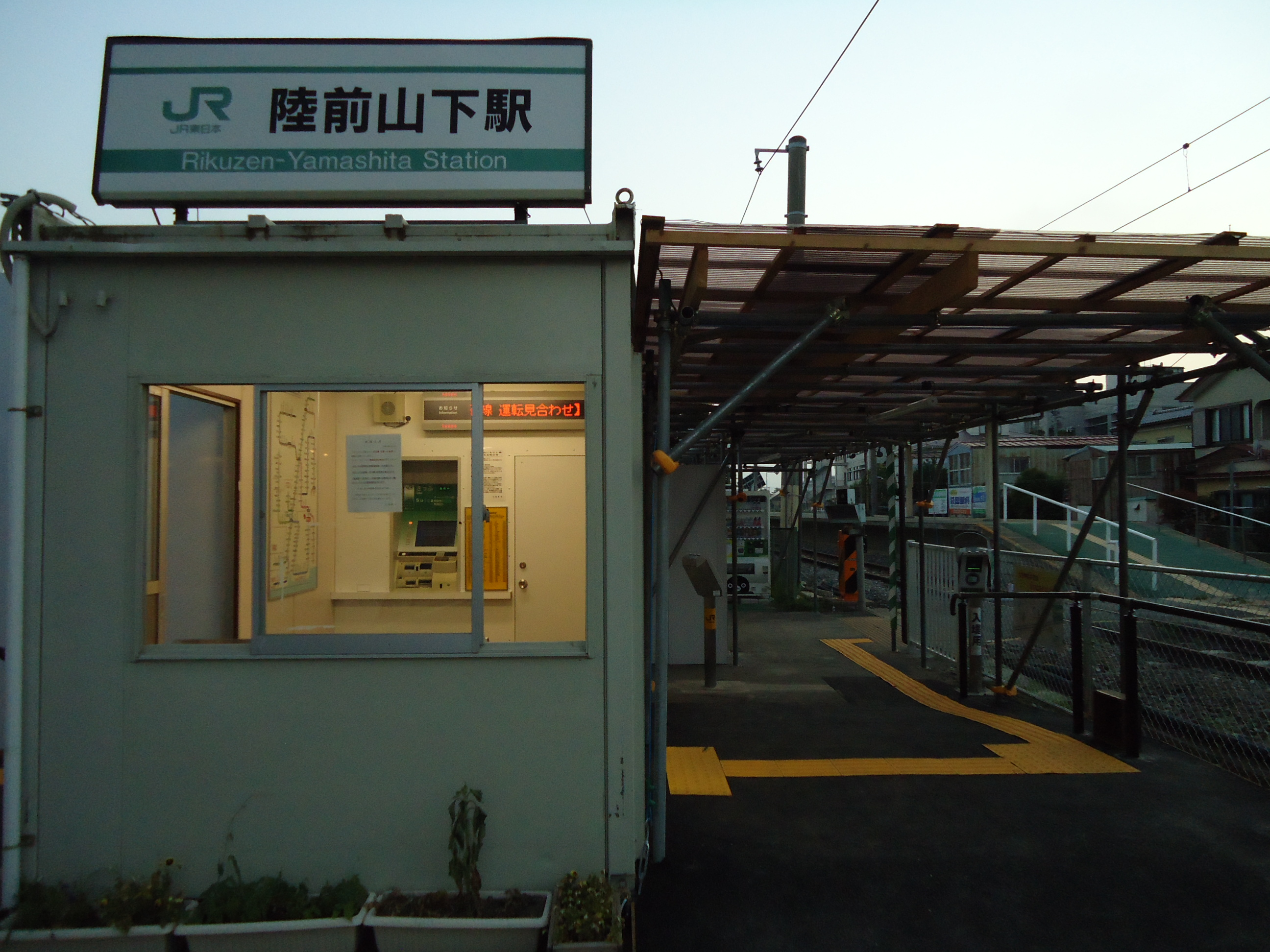 Temporary building of Rikuzen-Yamashita Station on the JR East Senseki Line